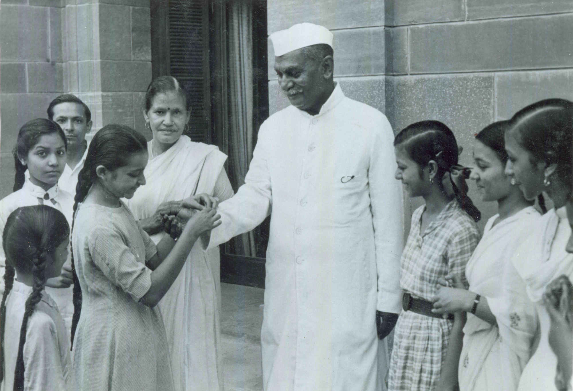 Rajendra Prasad, first president of the Republic of India celebrating the festival of Rasha Bandhan, 1953